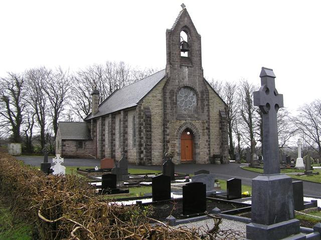 Monea RC Church It is north-east of the village